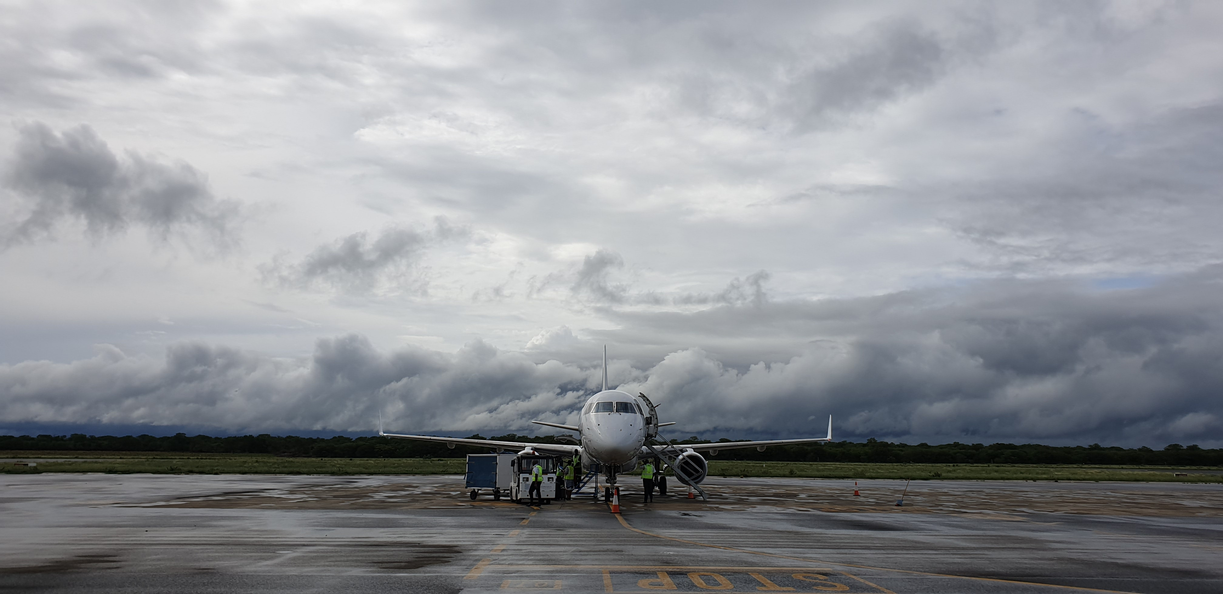 Chobe is the tourism hub of Botswana and the Kasane International Airport represents an important link to getting the much needed tourists into the area. Air Botswana is a vital link to these efforts This is an image with the theme "Africa on the Move or Transport" from: Botswana